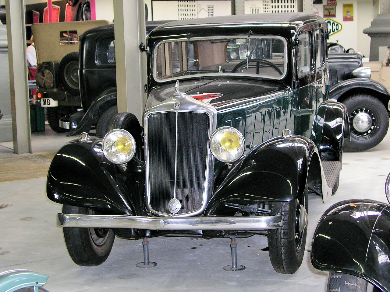 last luxury car model powered by a 1978 cc 4-cylinder engine with sleeve-valves, made in Belgium by Minerva Motors SA; front view